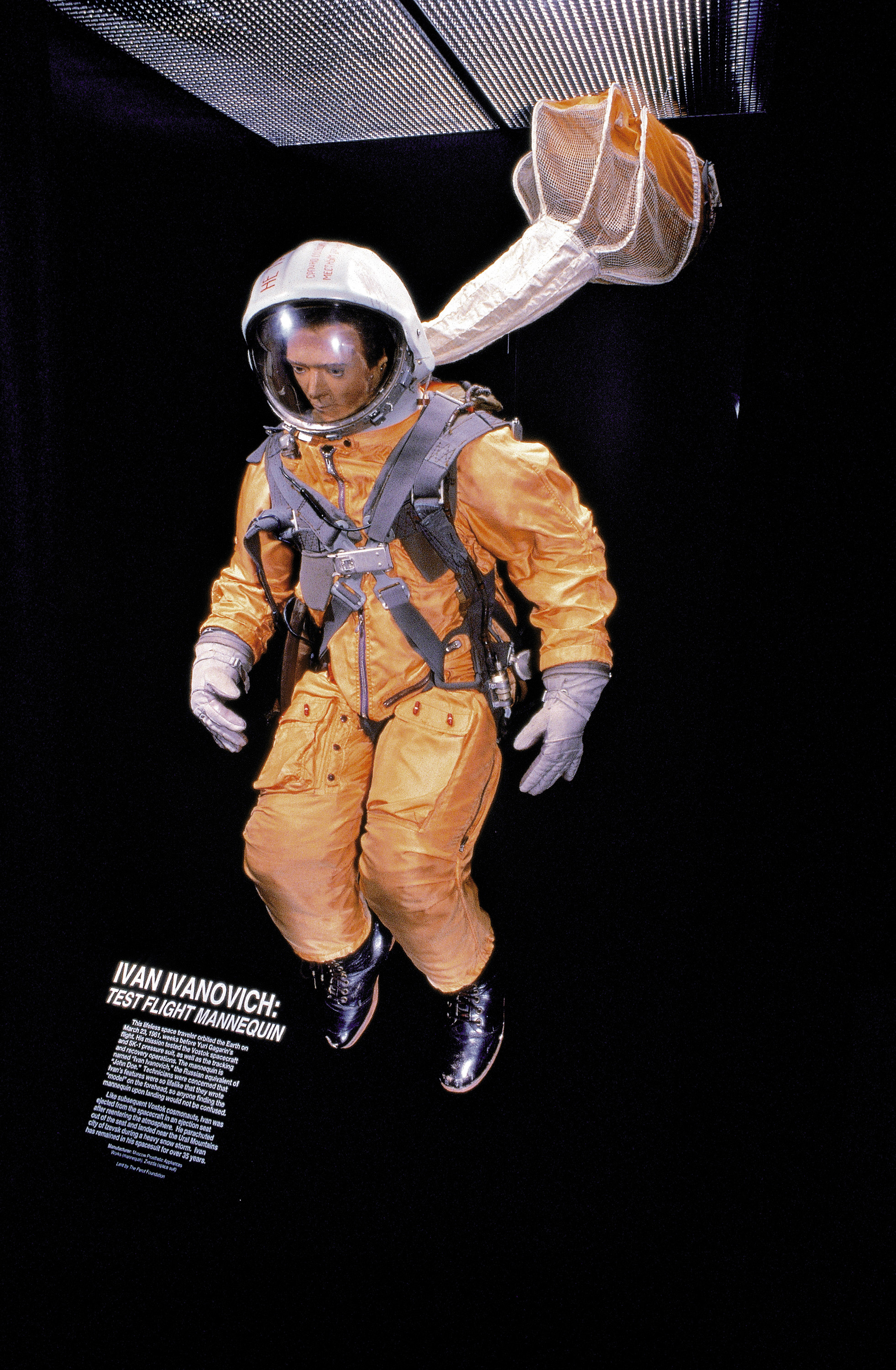 This test flight mannequin named "Ivan Ivanovich" orbited the Earth in 1961 weeks before the flight of Yuri Gagarin, the first man in space. Ivan's mission was to test the spacecraft and pressure suit to be used by Gagarin, as well as spacecraft tracking and recovery operations.